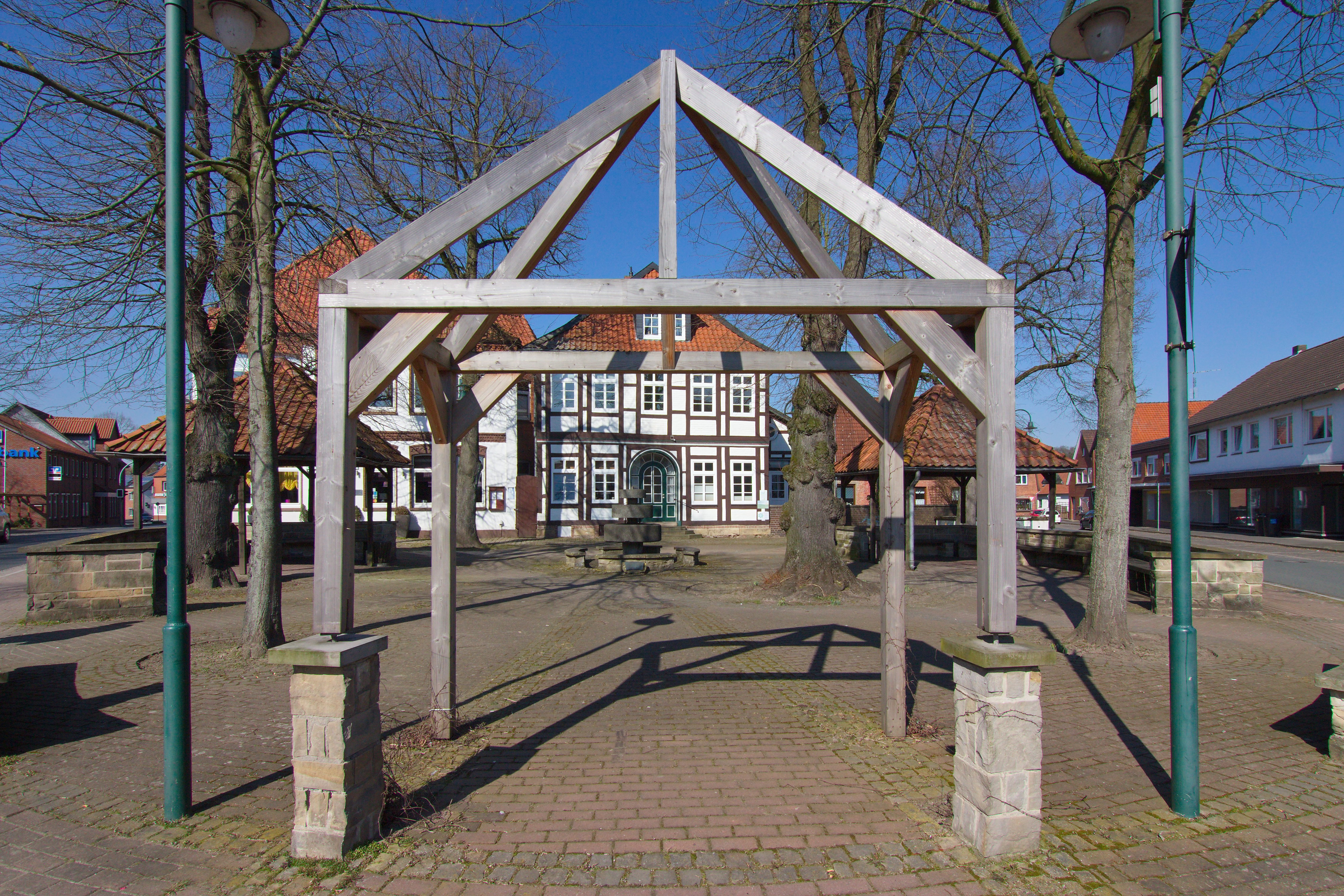 Ortsblick Liebenau, Niedersachsen, Deutschland.